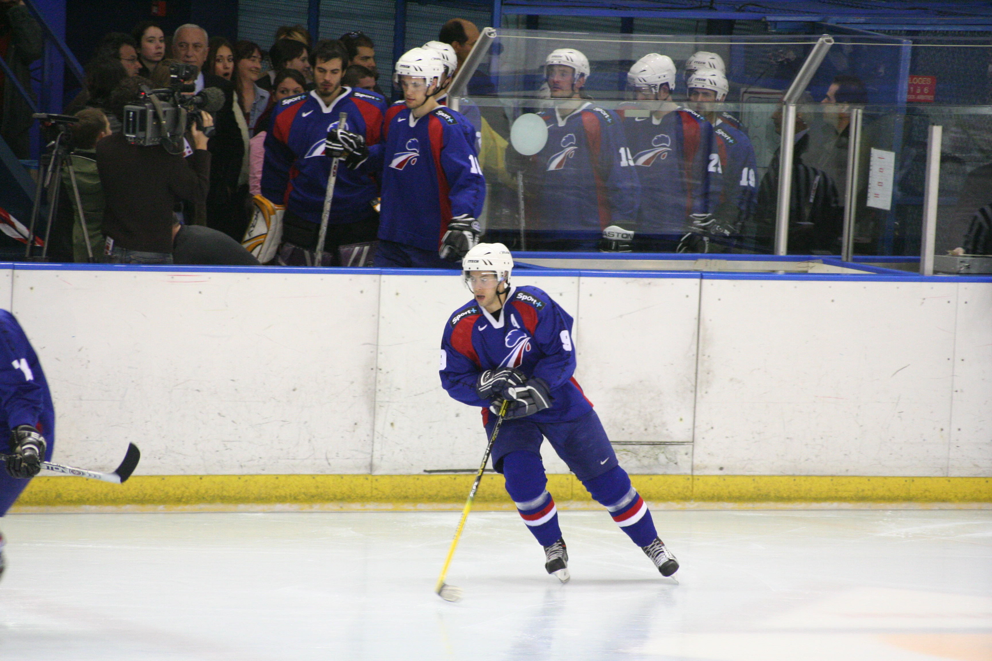 match de hockey sur glace, France - Pologne, Maurice Rozenthal